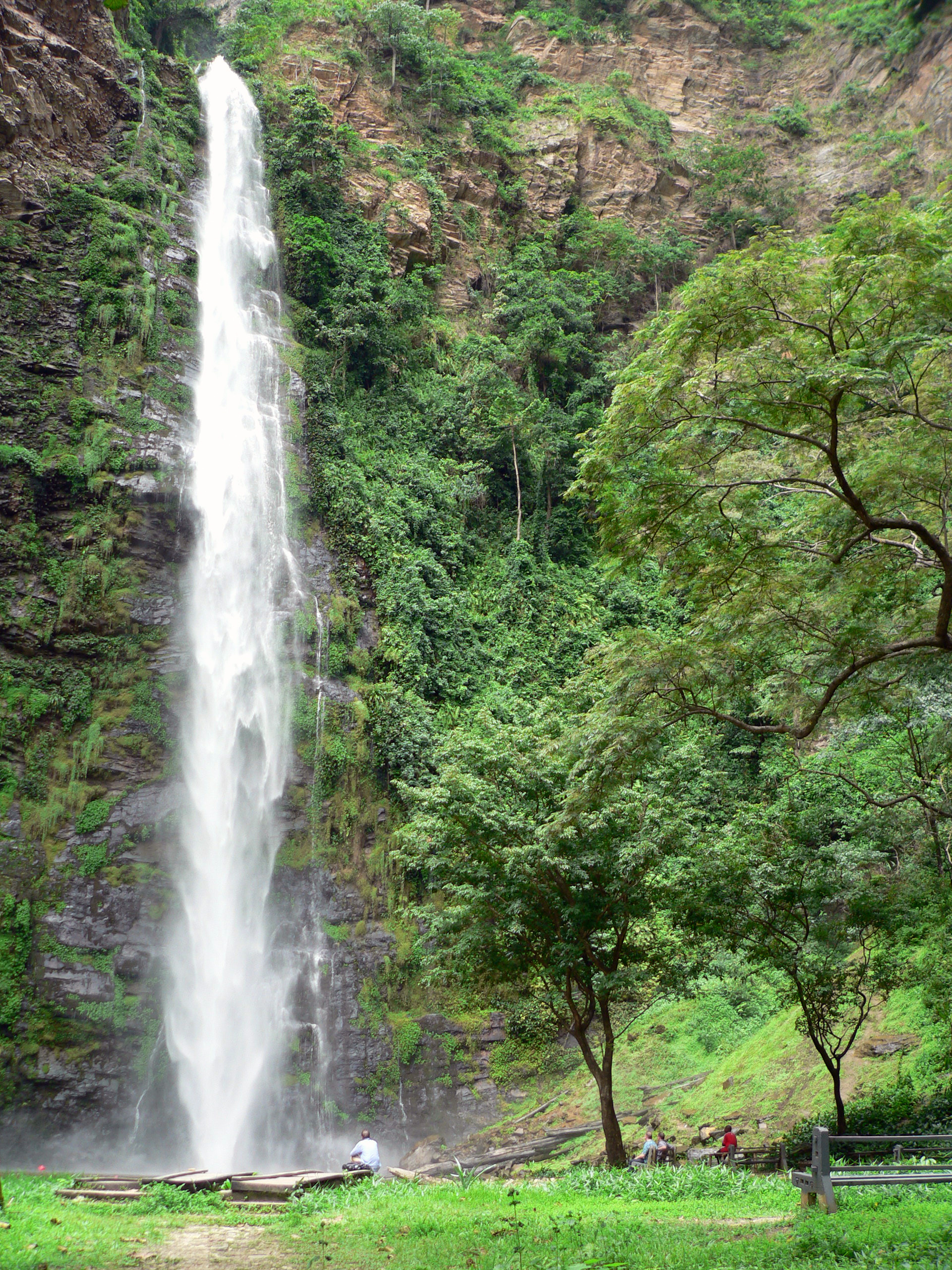 We have arrieved at the lower fall.